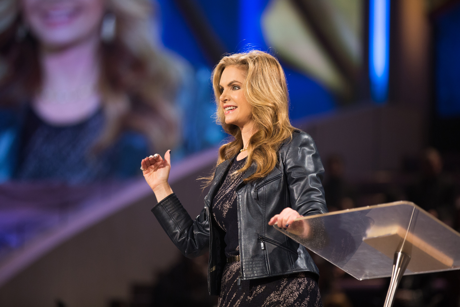 Victoria Osteen speaking at Lakewood Church in Houston, Texas.